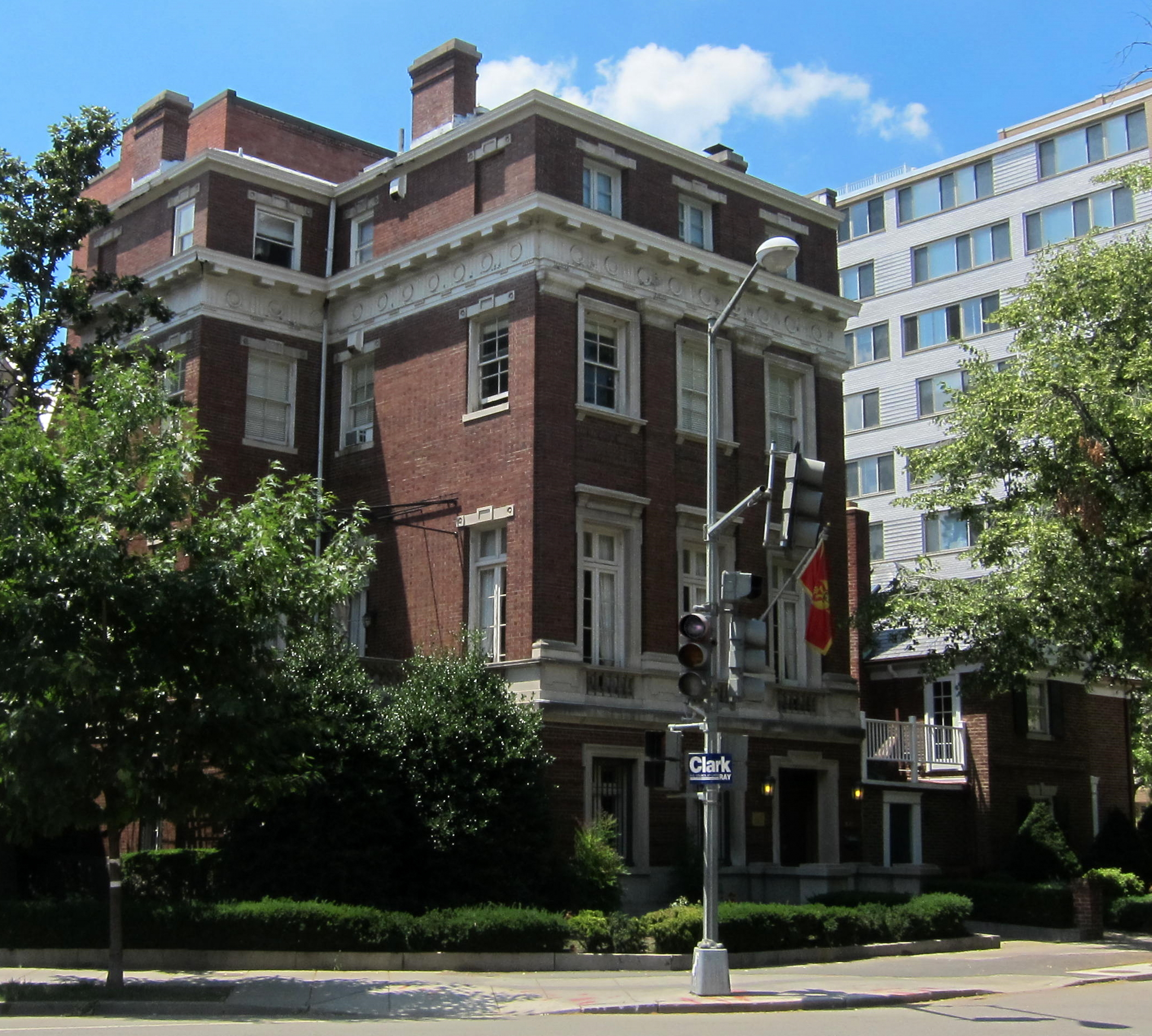 The Embassy of Montenegro located at 1610 New Hampshire Avenue, N.W., in the Dupont Circle neighborhood of Washington, D.C. Built around 1892 as a private residence, the Georgian Revival-style building is designated as a contributing property to the Dupont Circle Historic District, listed on the National Register of Historic Places in 1978. Previous occupants include the A. K. Rice Institute, Charles L. McCawley, Sarah H. McCawley (grandmother of Henry Cabot Lodge and daughter of Frederick T. Frelinghuysen), the Washington School of Psychiatry, and the William Alanson White Foundation.